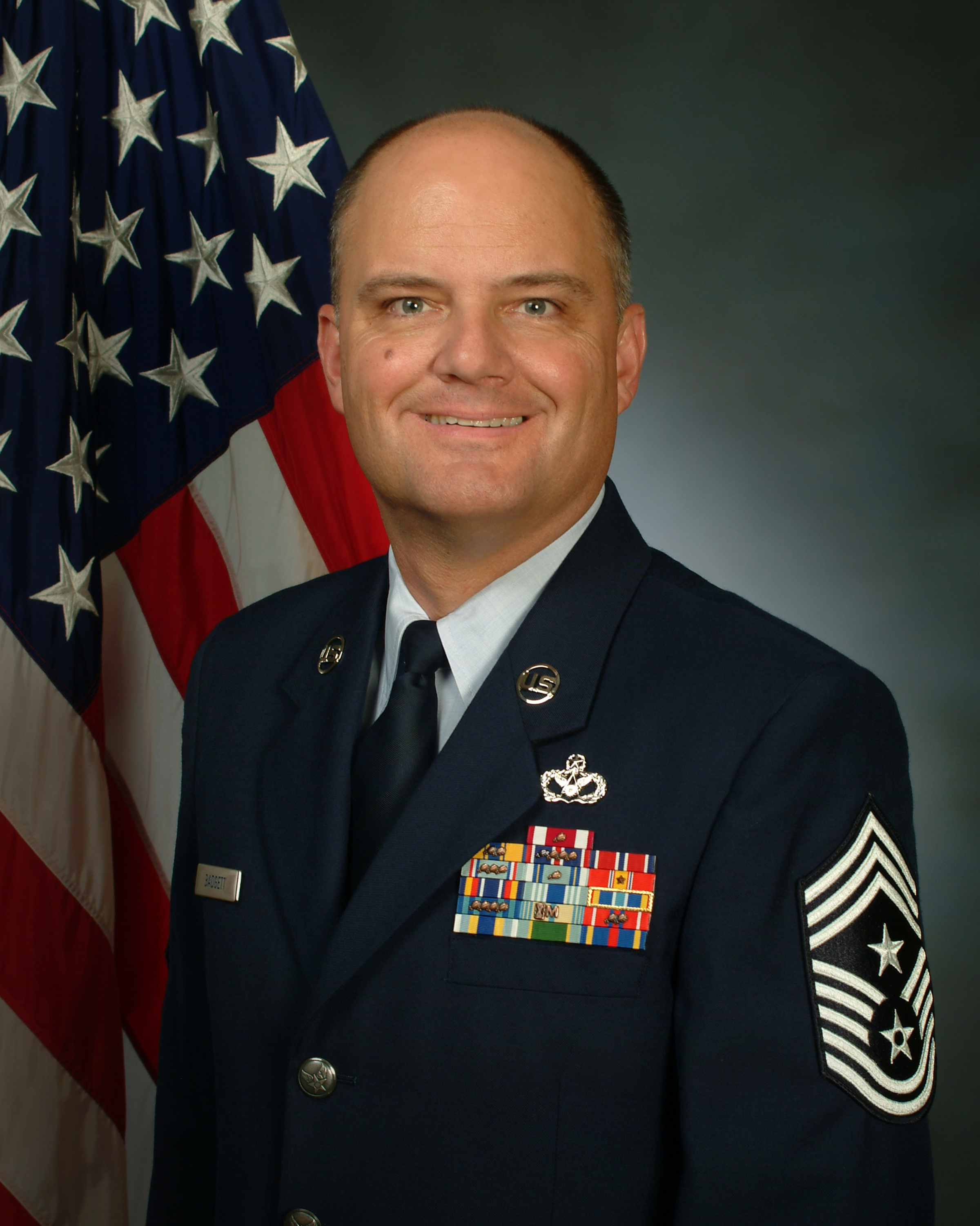 Chief Master Sergeant Dwight D. Badgett